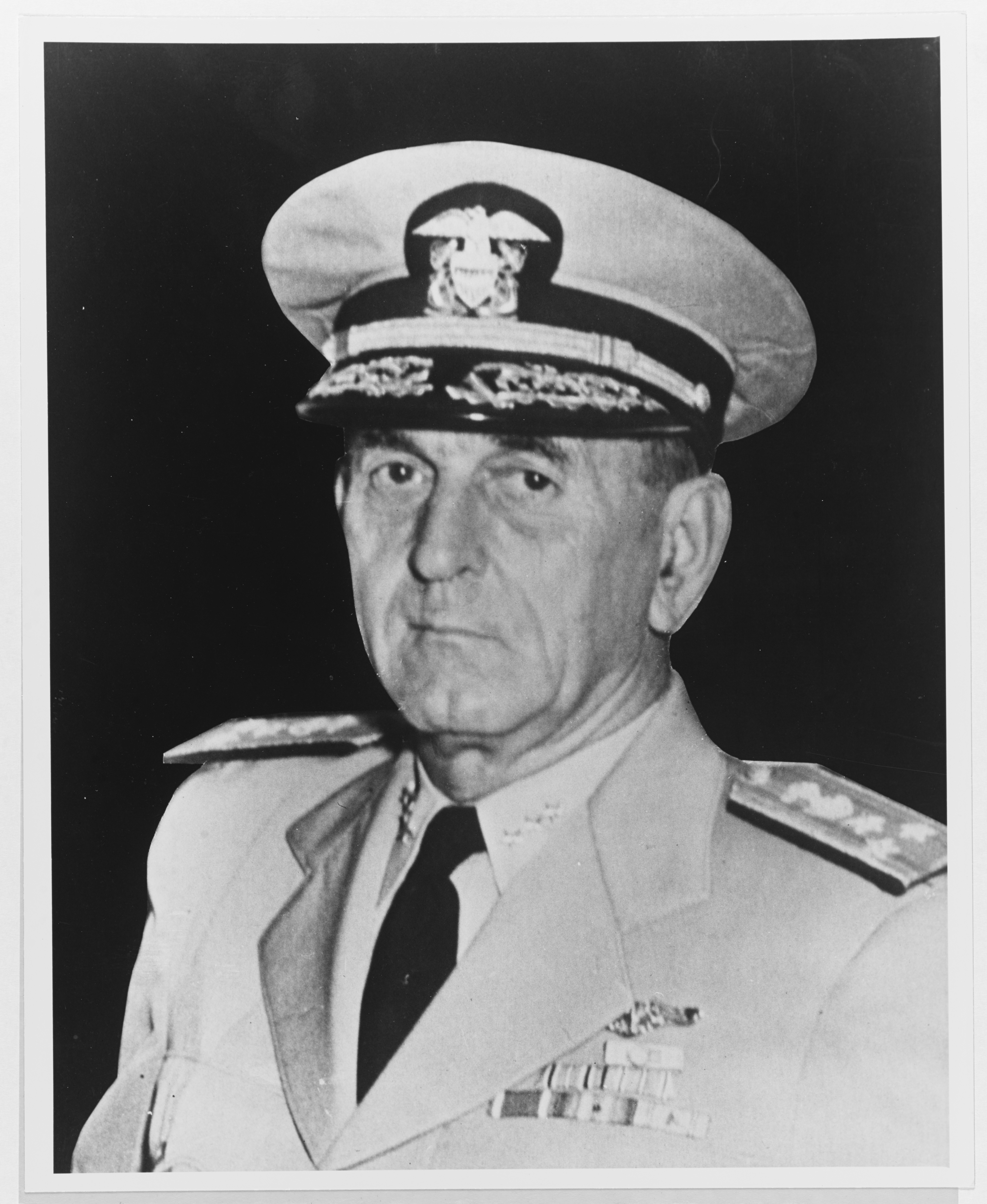 Vice Admiral William R. Munroe, U.S. Navy.